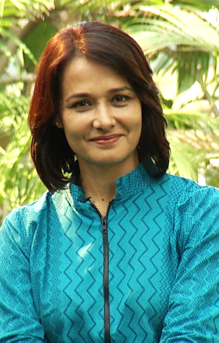 Actress and activist Amala Akkineni gives a behind-the-scenes interview about her role as a Trustee for TeachAIDS India Trust at her home in Hyderabad, India. Photo credit: TeachAIDS